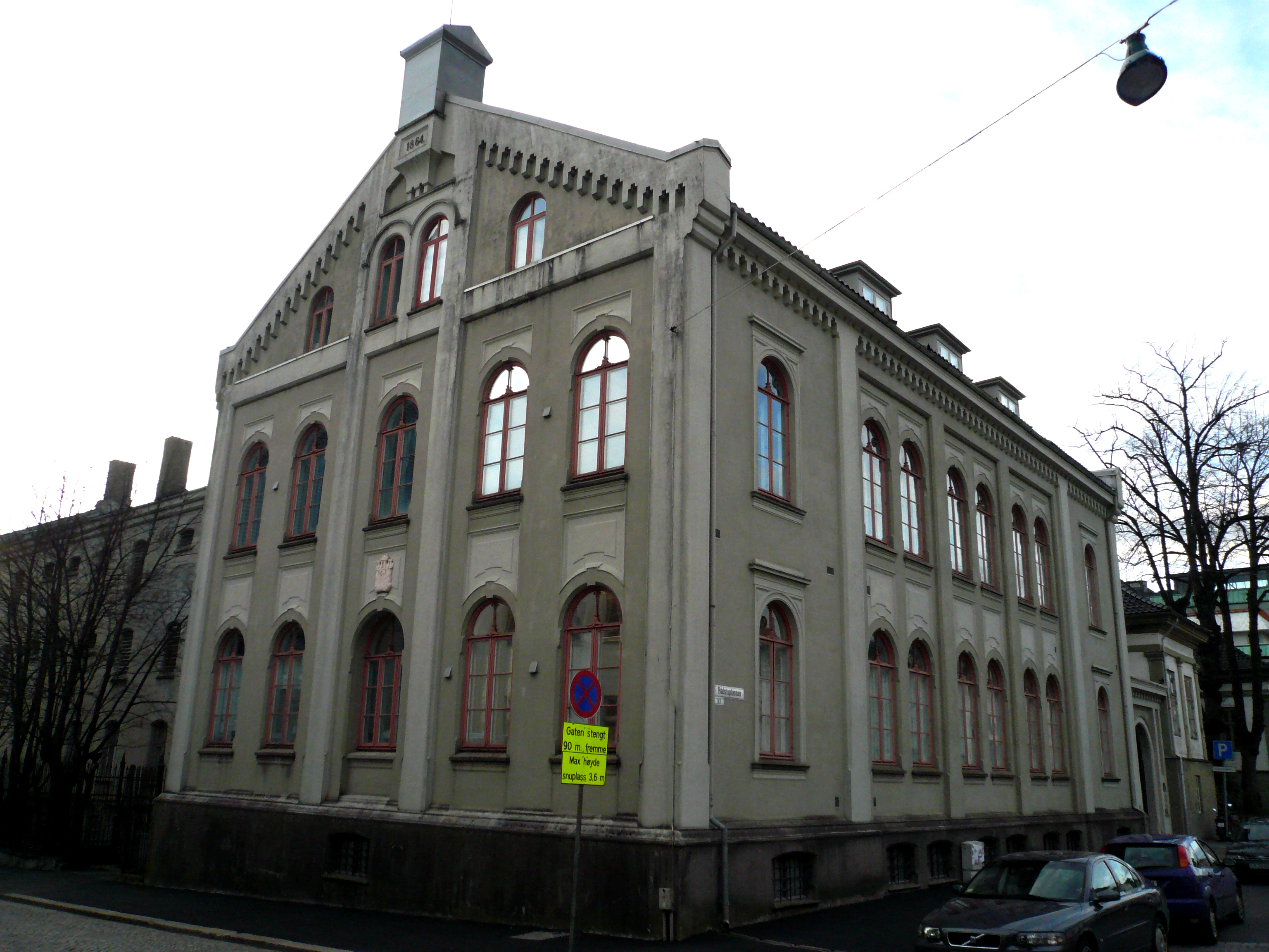 Bergens gamle tinghus, Rådstuplass 8, Bergen, Norway